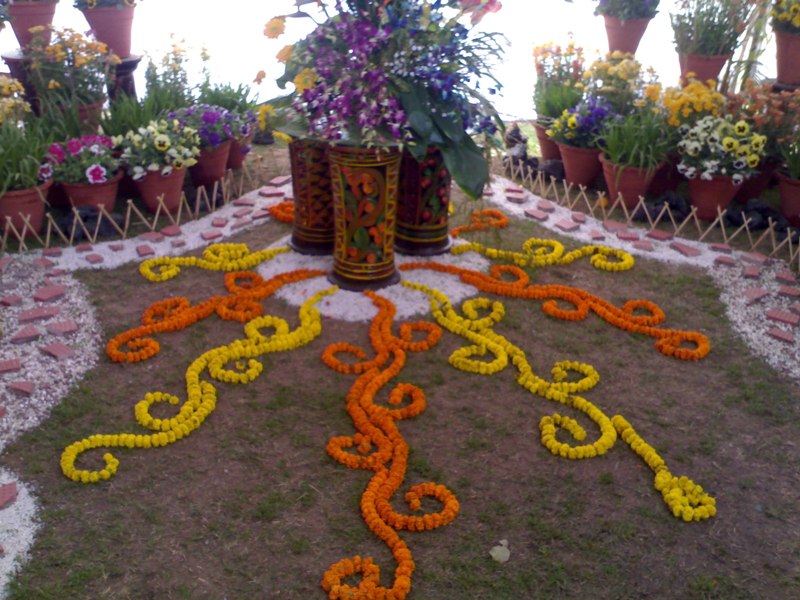 Floral art at Rose festival in Chandigarh, India